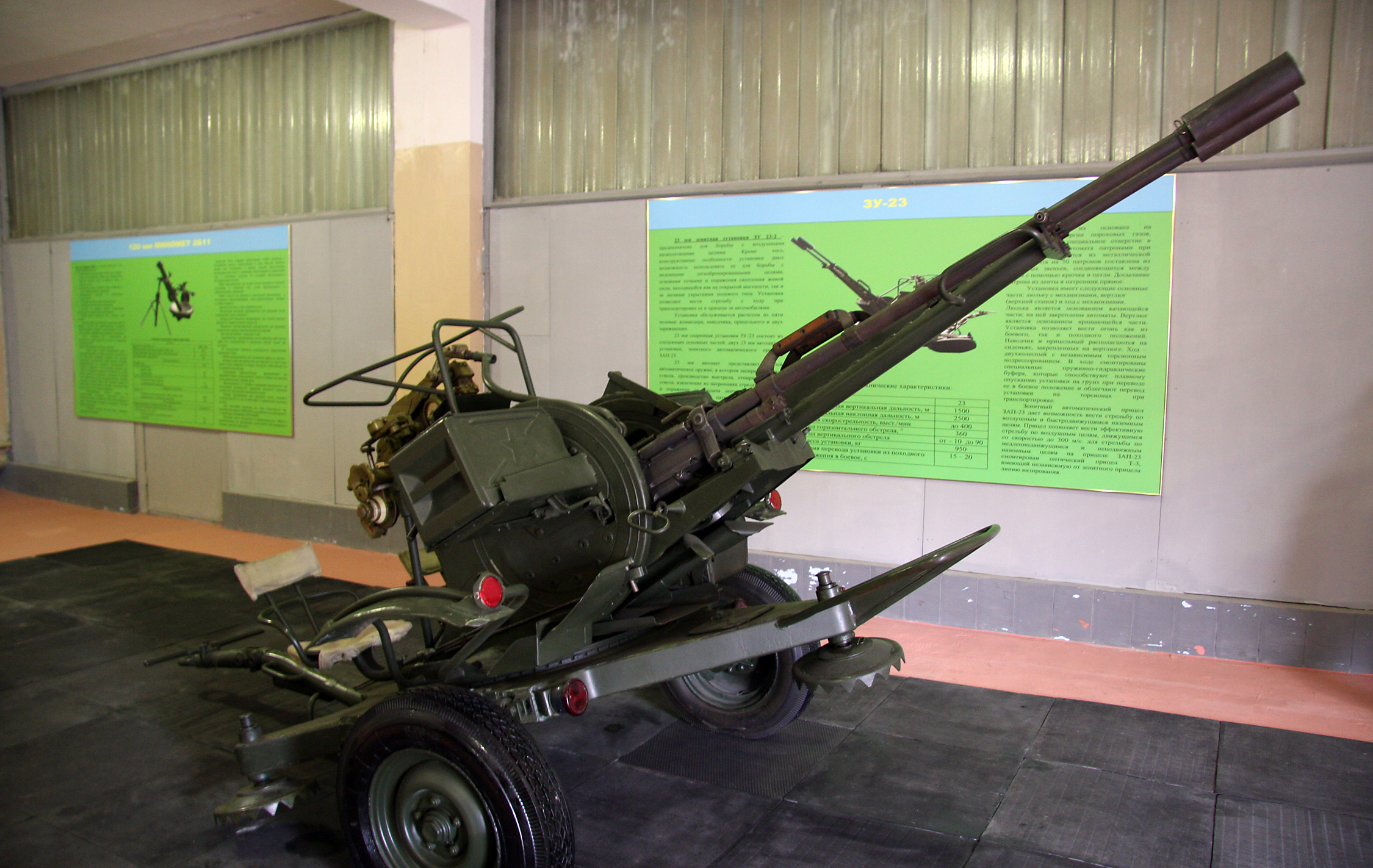 ZU23-2